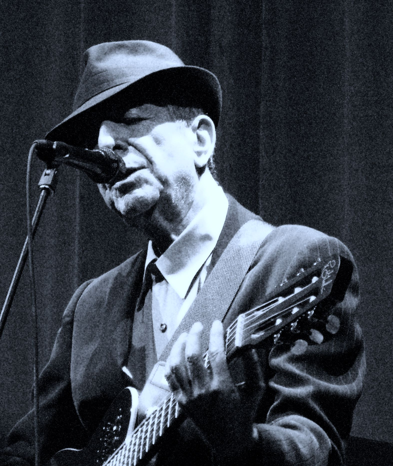 Leonard Cohen